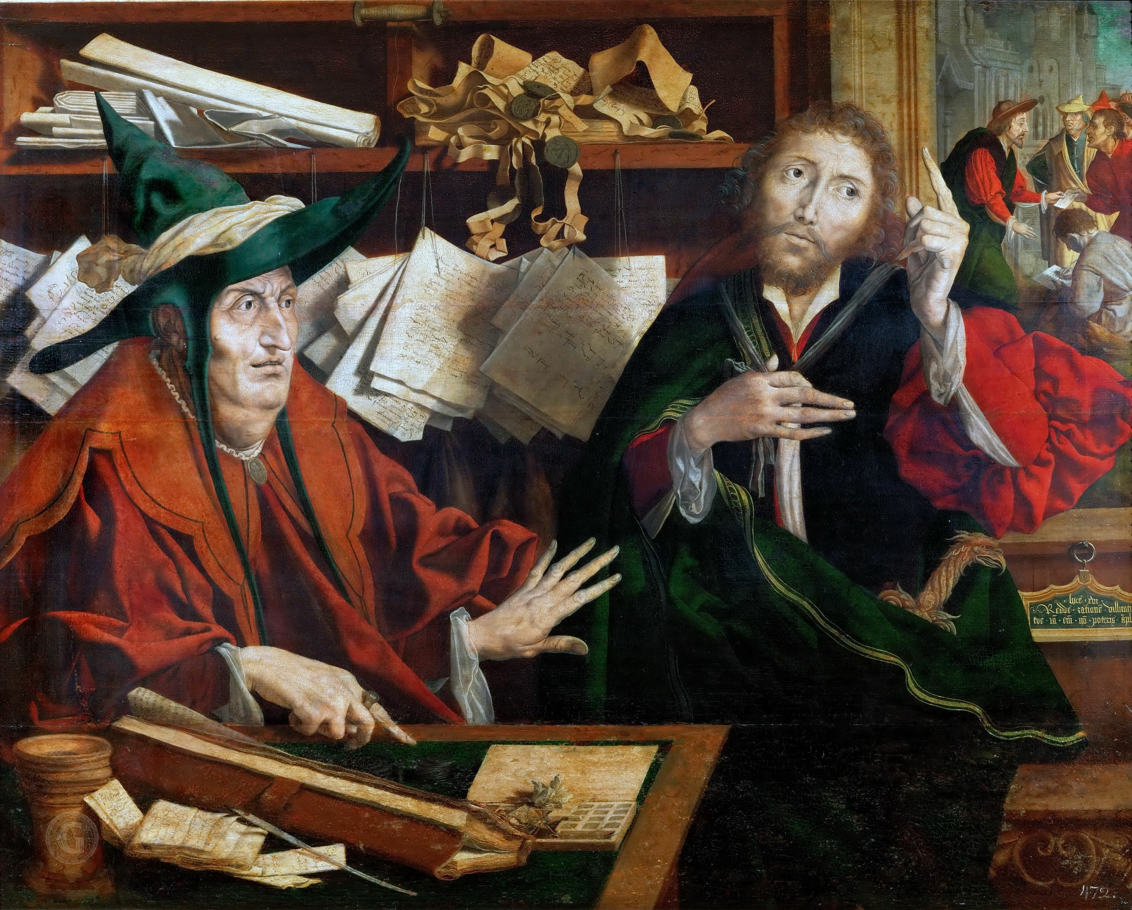 The parable of the Unjust Steward, Flemisn oil painting